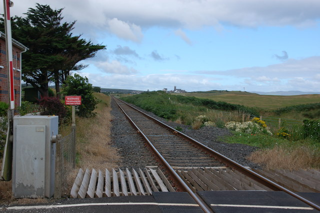 Barmouth level crossing near Castlerock (2) It might surprise some to learn that the Belfast-Londonderry railway is single track for almost its entire length. The railway is about 20 miles longer than the direct road and is not too well endowed with passengers beyond Coleraine. This is the Barmouth level crossing looking towards Castlerock and Londonderry.